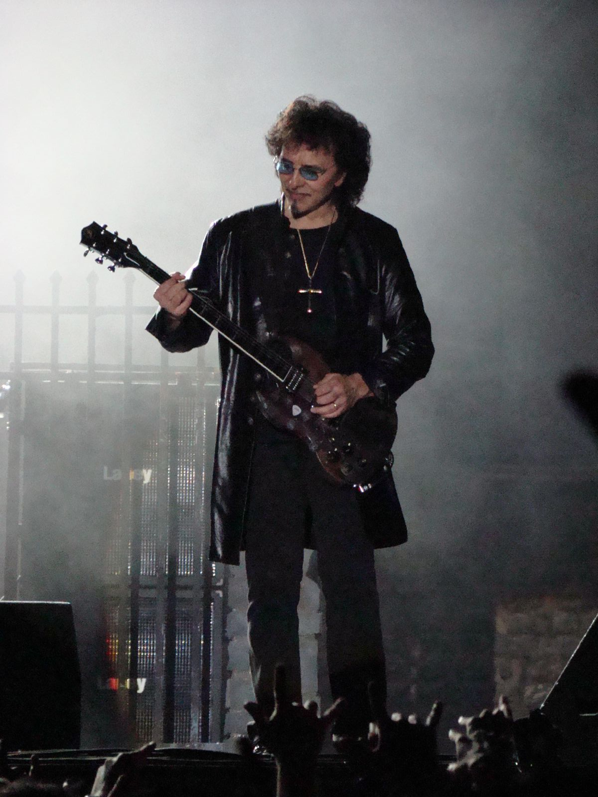 Tony Iommi of Heaven and Hell performing on June 4, 2007 at the Gods of Metal festival in Idroscalo park, Milan on Heaven and Hell's 2007 tour.